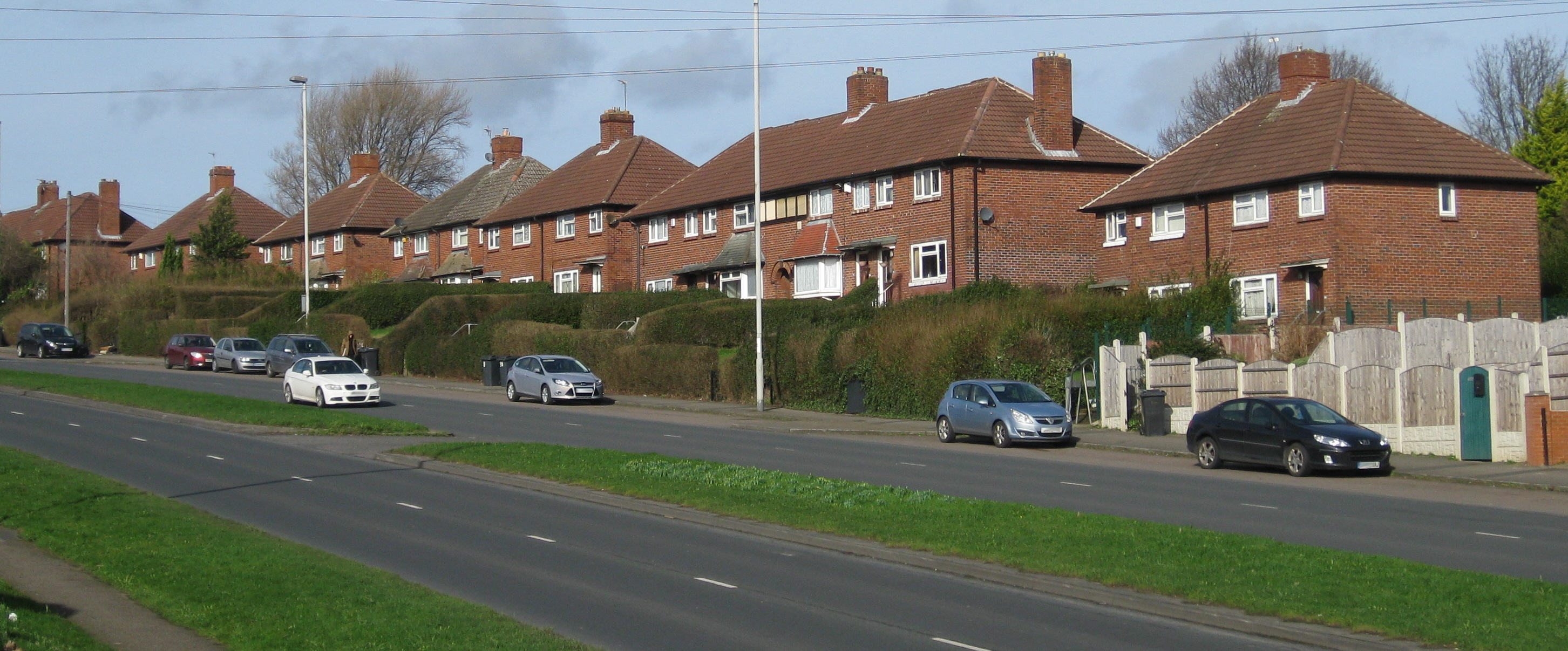 Scott Hall Road, Leeds LS7. Near the South end, looking East. Showing semi-detached houses and row of 4 homes as two semis joined with a common centre entry to the rear gardens, which is a feature of the estate.